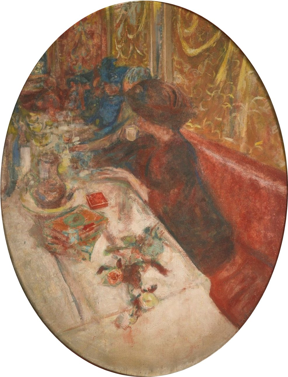 About 4 feet in height by 3 feet in width, 'The Cafe' depicts ladies seated at a banquette.Recently canonised by the Wiledenstein Institute, it is valued at an estimated £250,000. 'The Cafe' last sold in 2007 at TW Gaze auction house in Diss, Norfolk. It remains with the purchaser--screenwriter Keith Tutt--who paid £11,000.